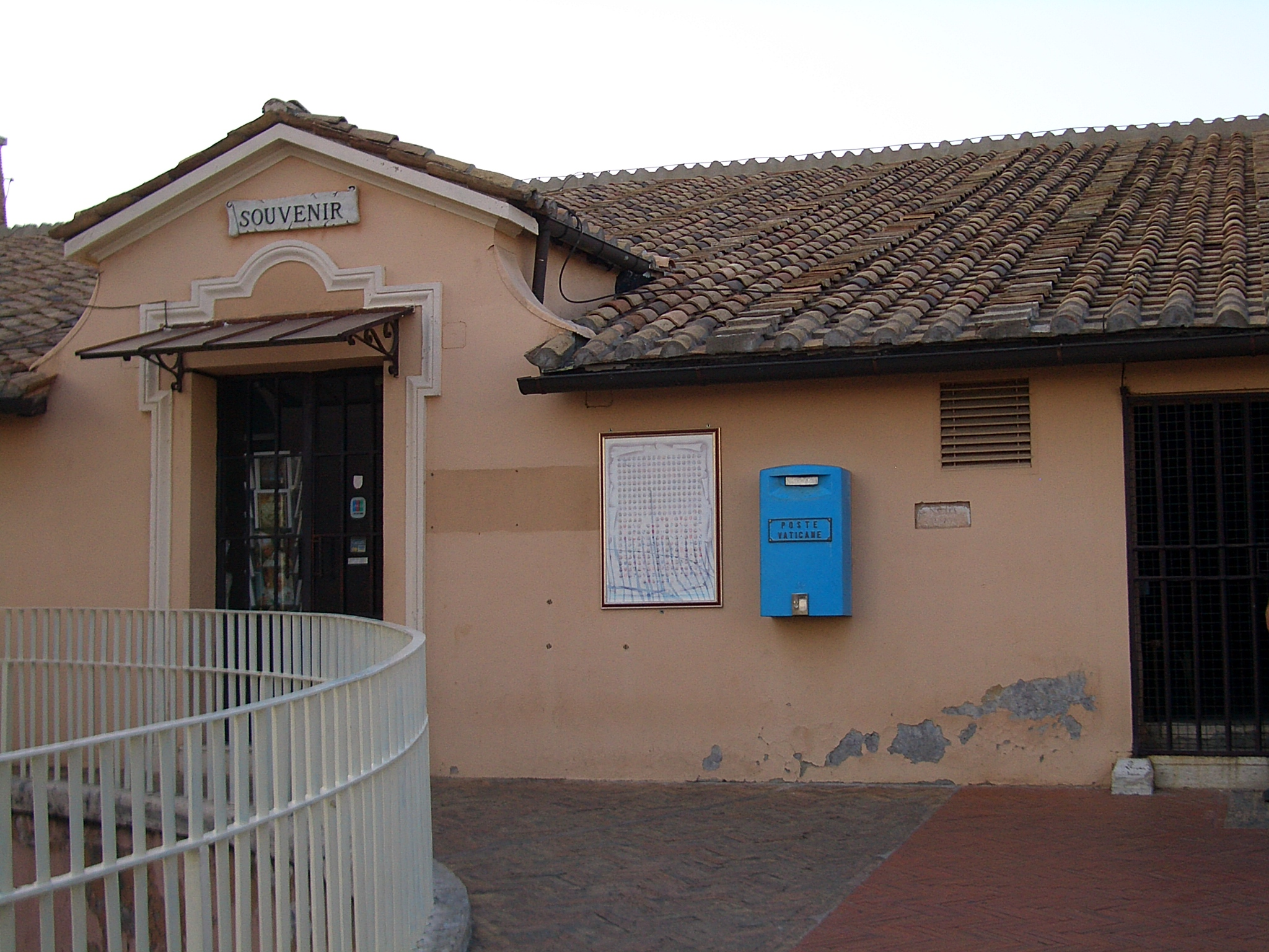 A souvenir shop on the roof of St Peter Basilica. Tourists get here by the elevator, and can walk further up inside the dome.